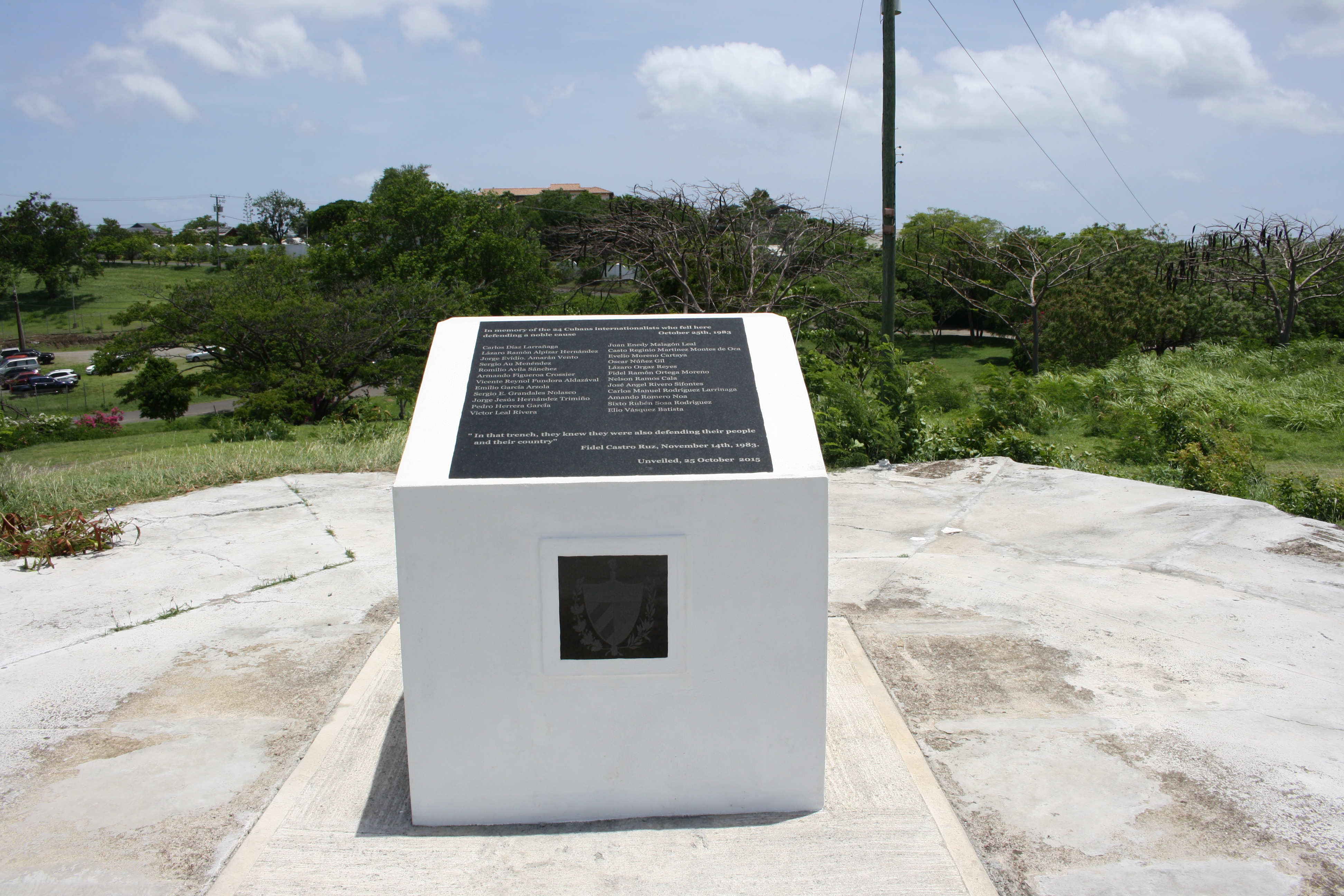 Cuban Monument for Cuban Internationalists who were killed in the US led Grenada Invasion in 1983, unveiled in 2015